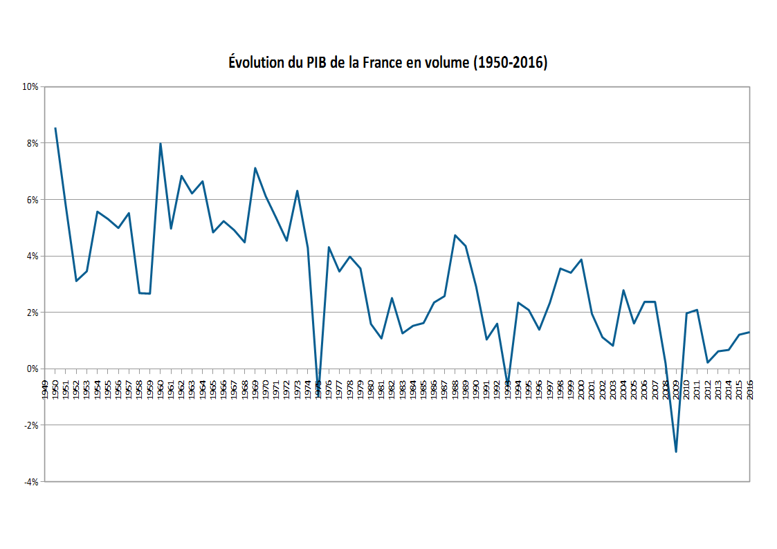 Evolution of GNP in France (constant prices) from 1950 to 2013